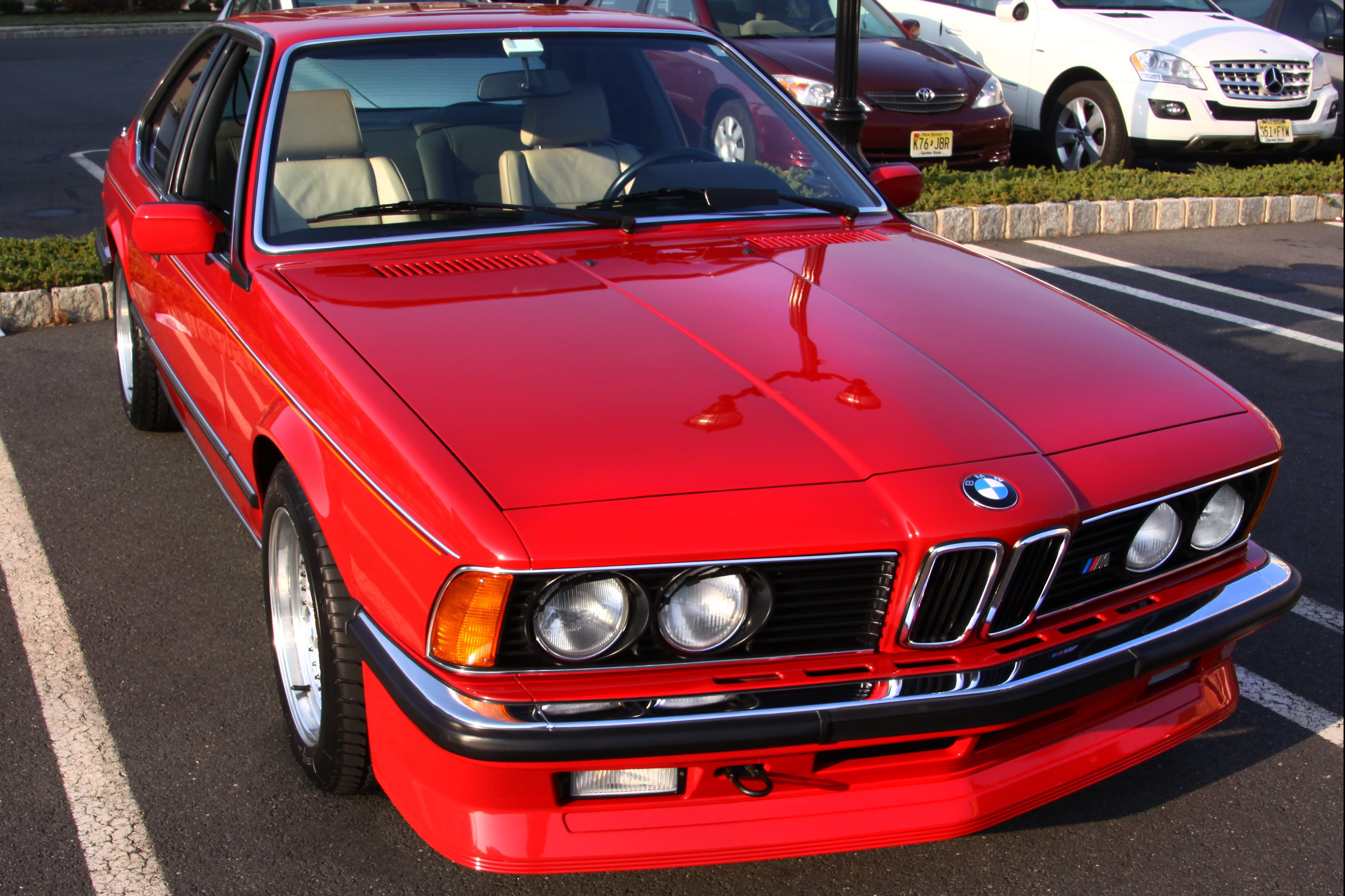 1985 BMW M635CSi. Original BBS RS007 210 TR 415 wheels on Michelin TRX 240/45VR415 tires.